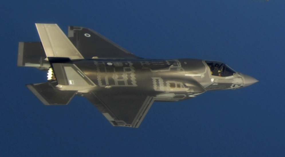 A United Kingdom Lockheed Martin F-35B Lightning II in the skies above Eglin Air Force Base, Florida (USA), on 21 May 2014.